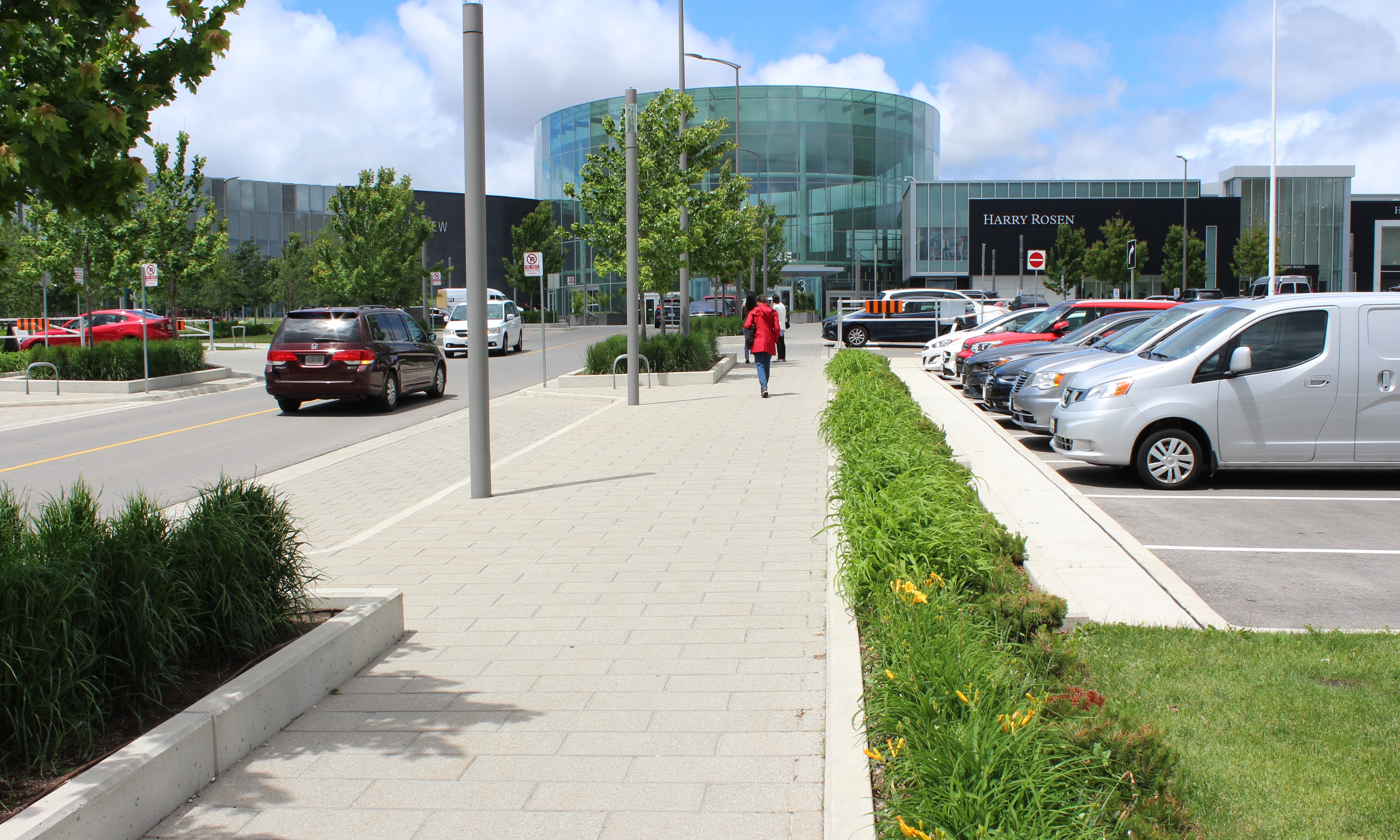 Square One Shopping Centre, Mississauga.